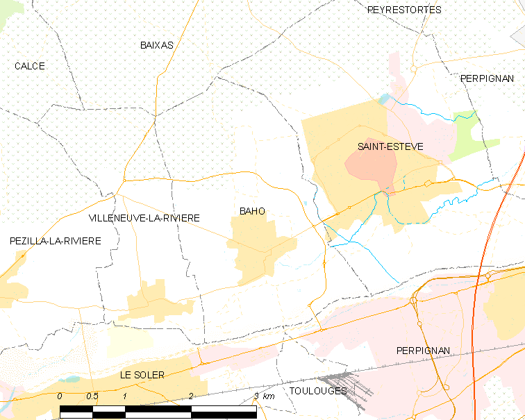 Map of French municipality